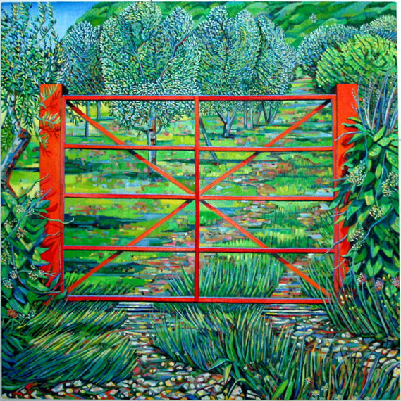 The Red Gate, painted by Noel Paine in 2012